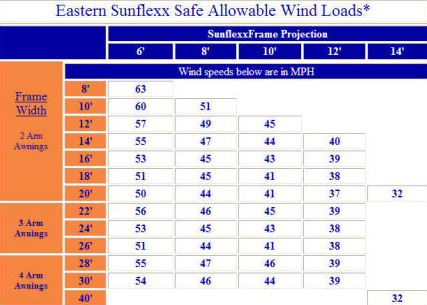 WCA